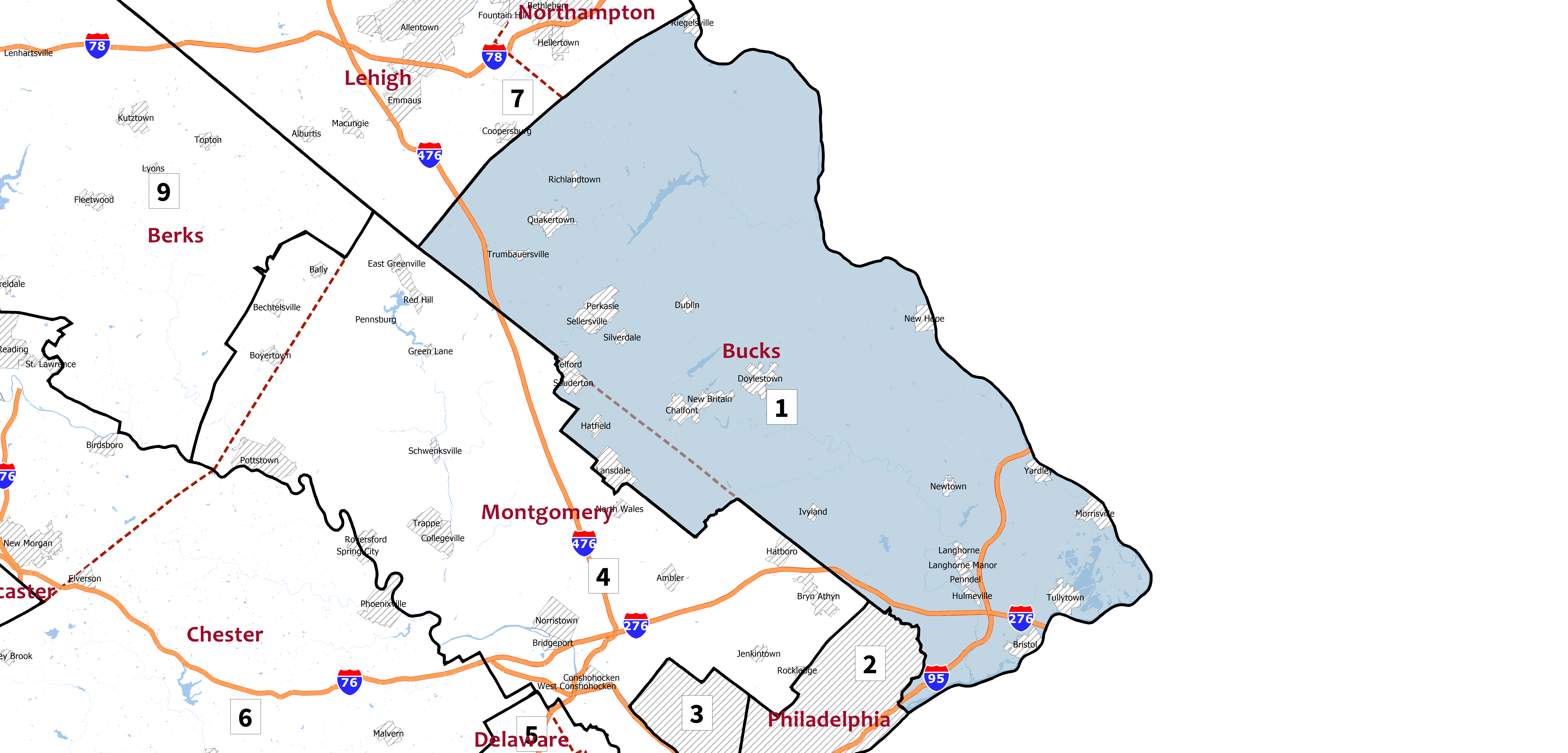 Pennsylvania Congressional District 1